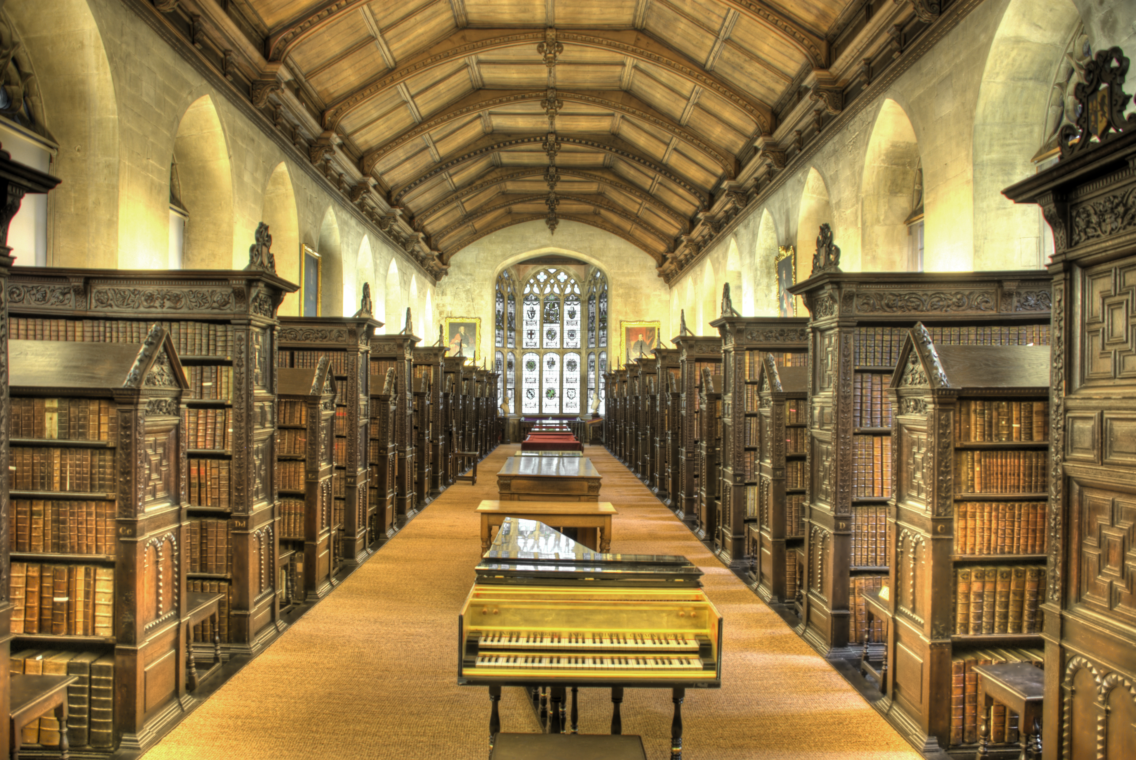 The interior of the Old Library, St John's College, Cambridge University